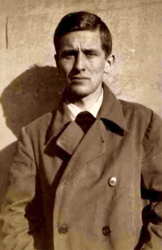 Dr. Heinrich Meyer (17 May 1904, Nuremberg – 10 October 1977, Bellingham, Washington State) as a young teacher at progressive Schule am Meer (School by the Sea) on Juist Island, North Sea, East Frisia, Germany. According to a passenger list of Norddeutscher Lloyd on 11 June 1930 he went aboard MS Crefeld in Bremen to migrate to the US. The ship's destination was Galveston, Texas.